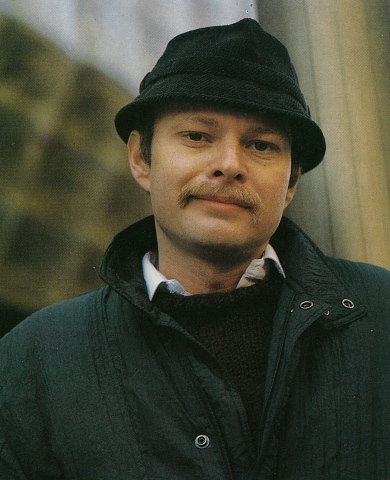 Jaromír Pelc